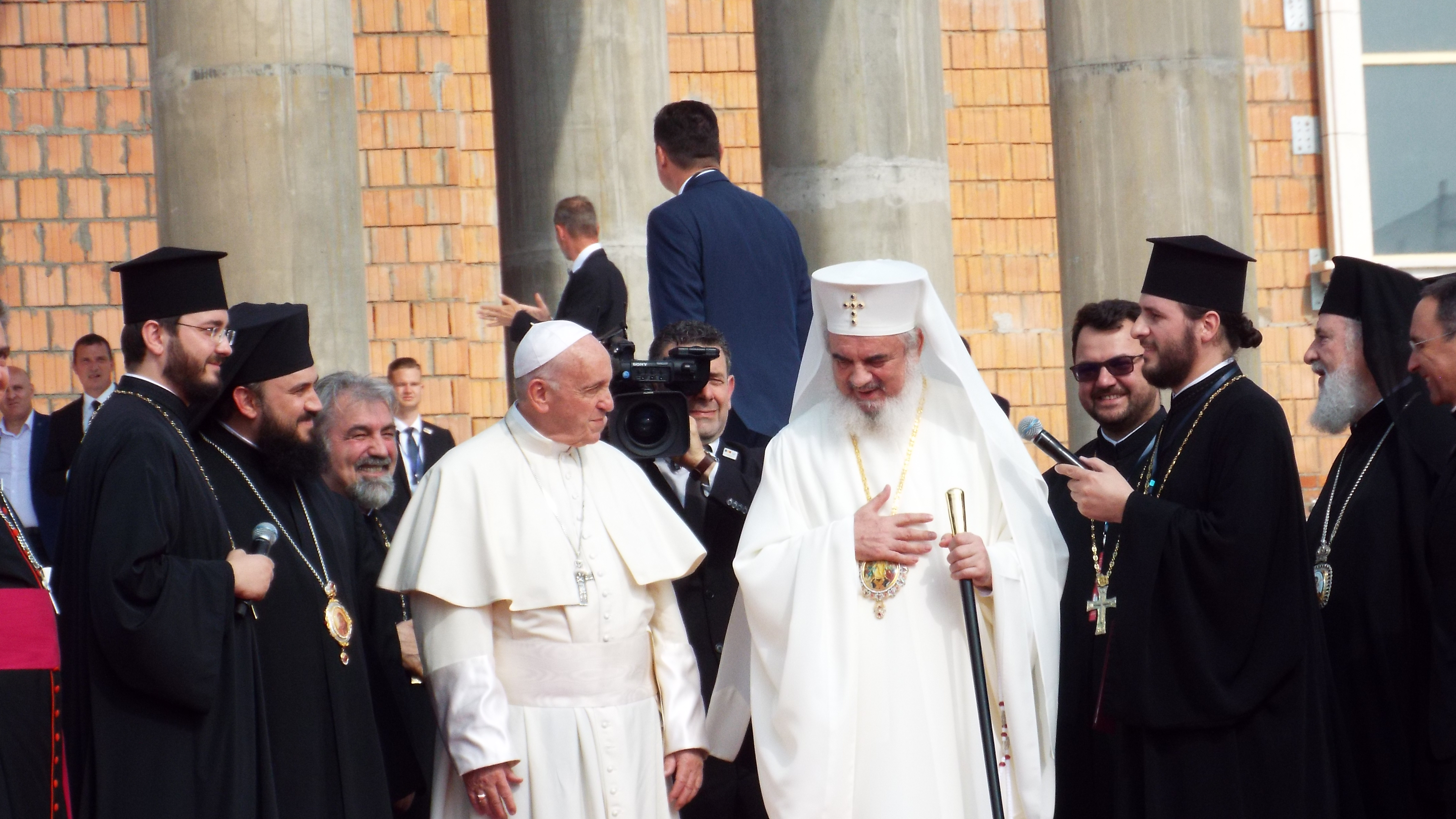 Pope Francisc - Patriarch Daniel (31.05.2019)